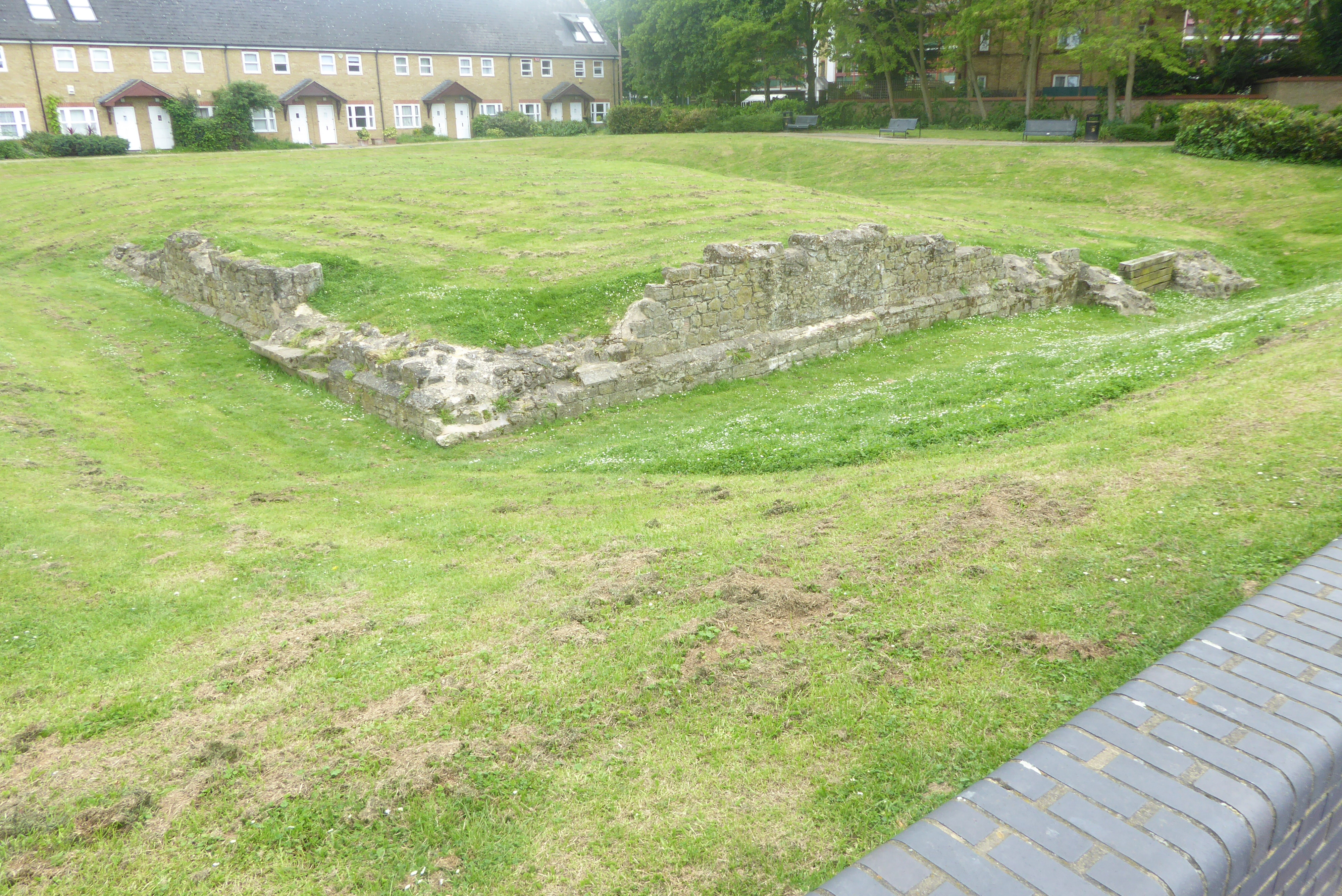 remains of Edward III’s Manor House, Rotherhithe